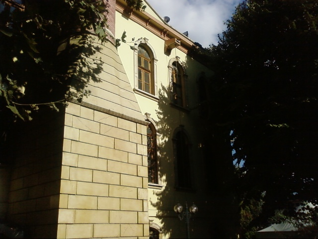 Fevziye Mosque in İzmit, Kocaeli Province.